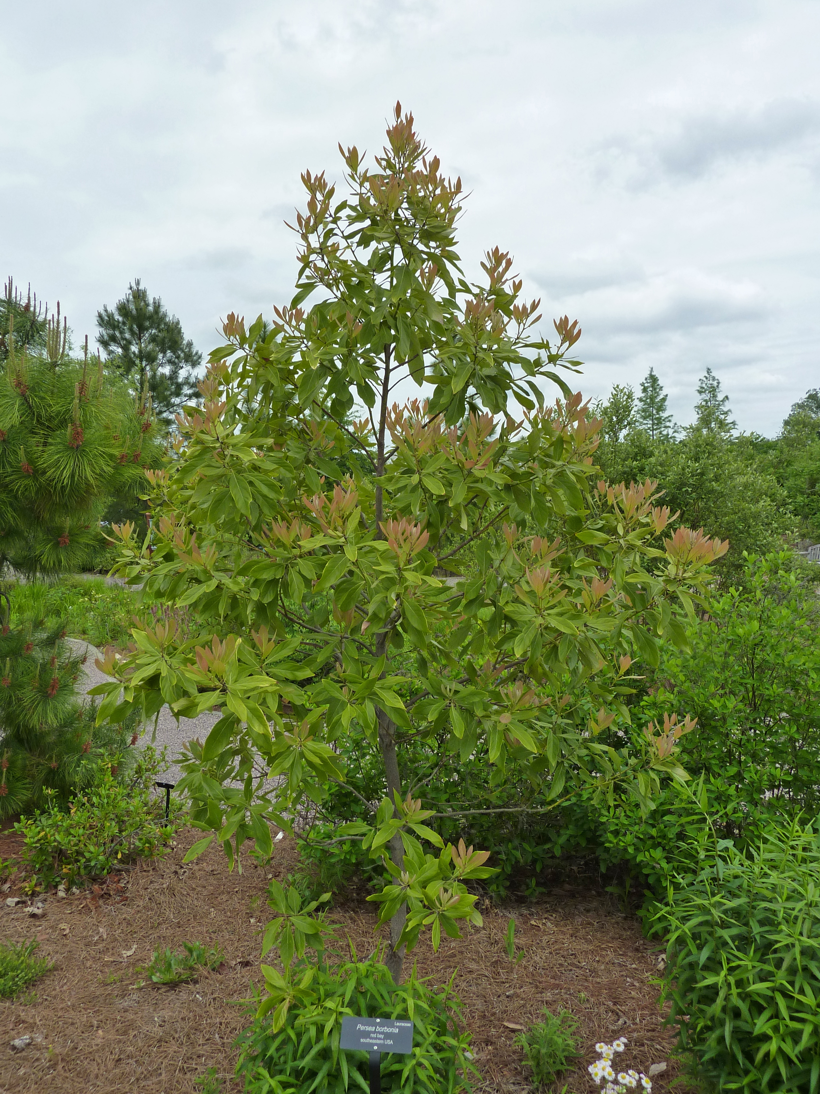 Persea borbonia in the United States Botanic Garden